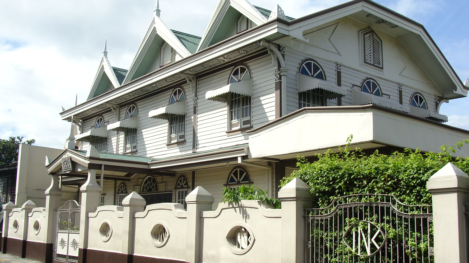 Iglesia ni Cristo Museum facade Punta Sta. Ana Manila